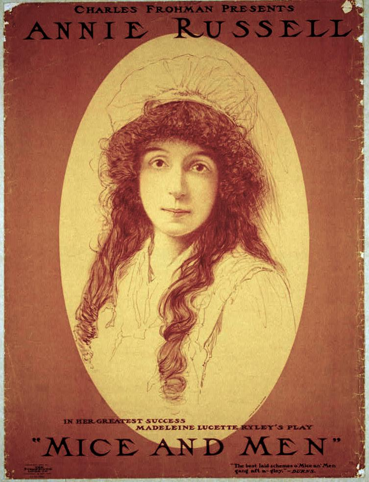 "Charles Frohman presents Annie Russell in her greatest succuss Madeleine Lucette Ryley's play, Mice and men"